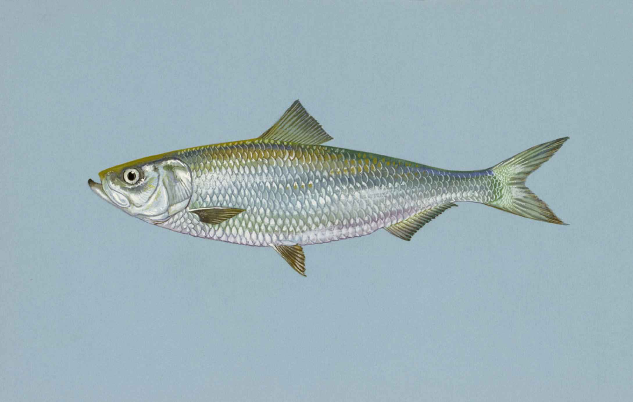 Image title: Skipjack herring fish alosa chrysochloris Image from Public domain images website